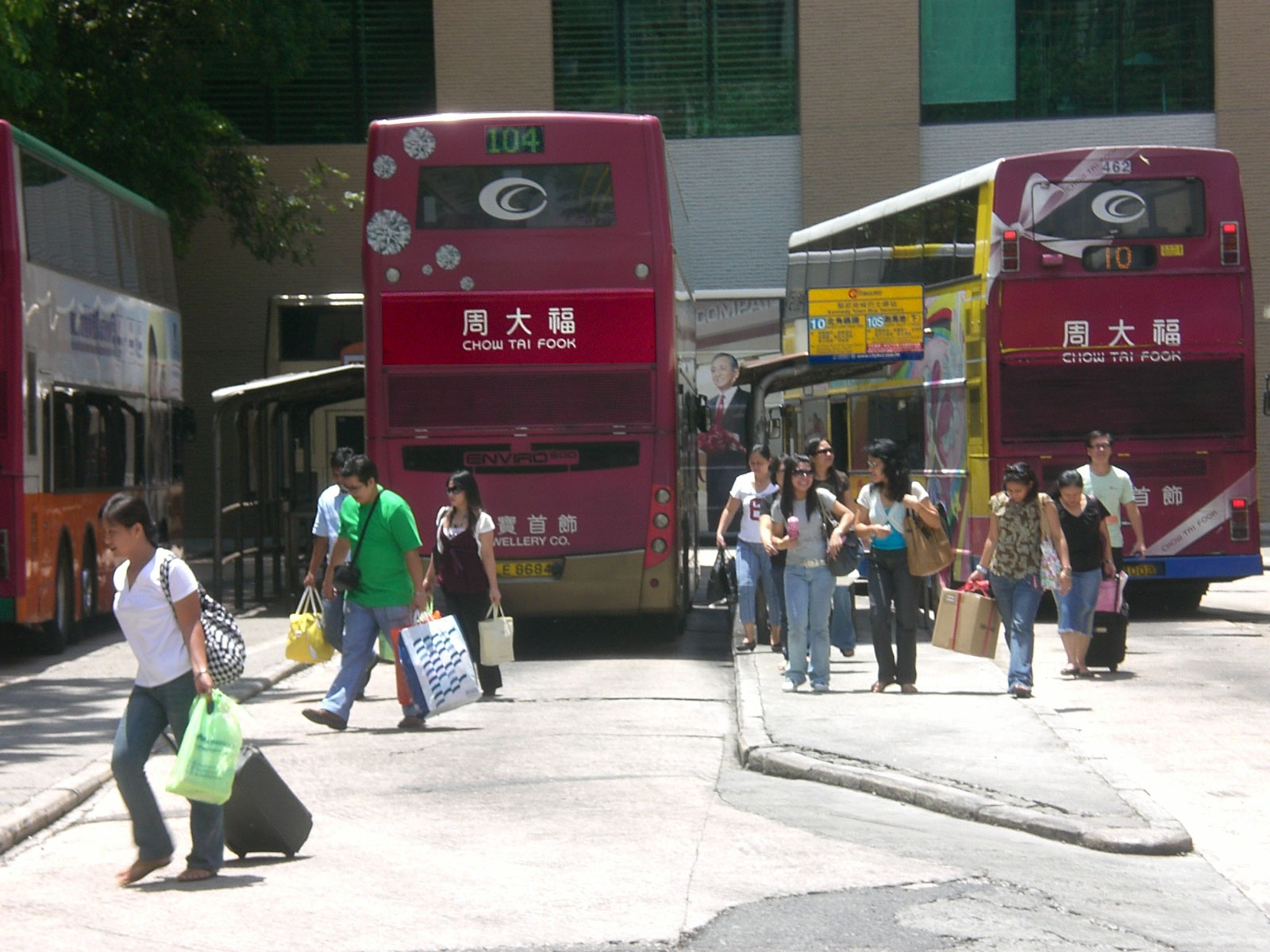 堅尼地城巴士總站 @ 堅尼地城西寧街, 近zh:域多利道